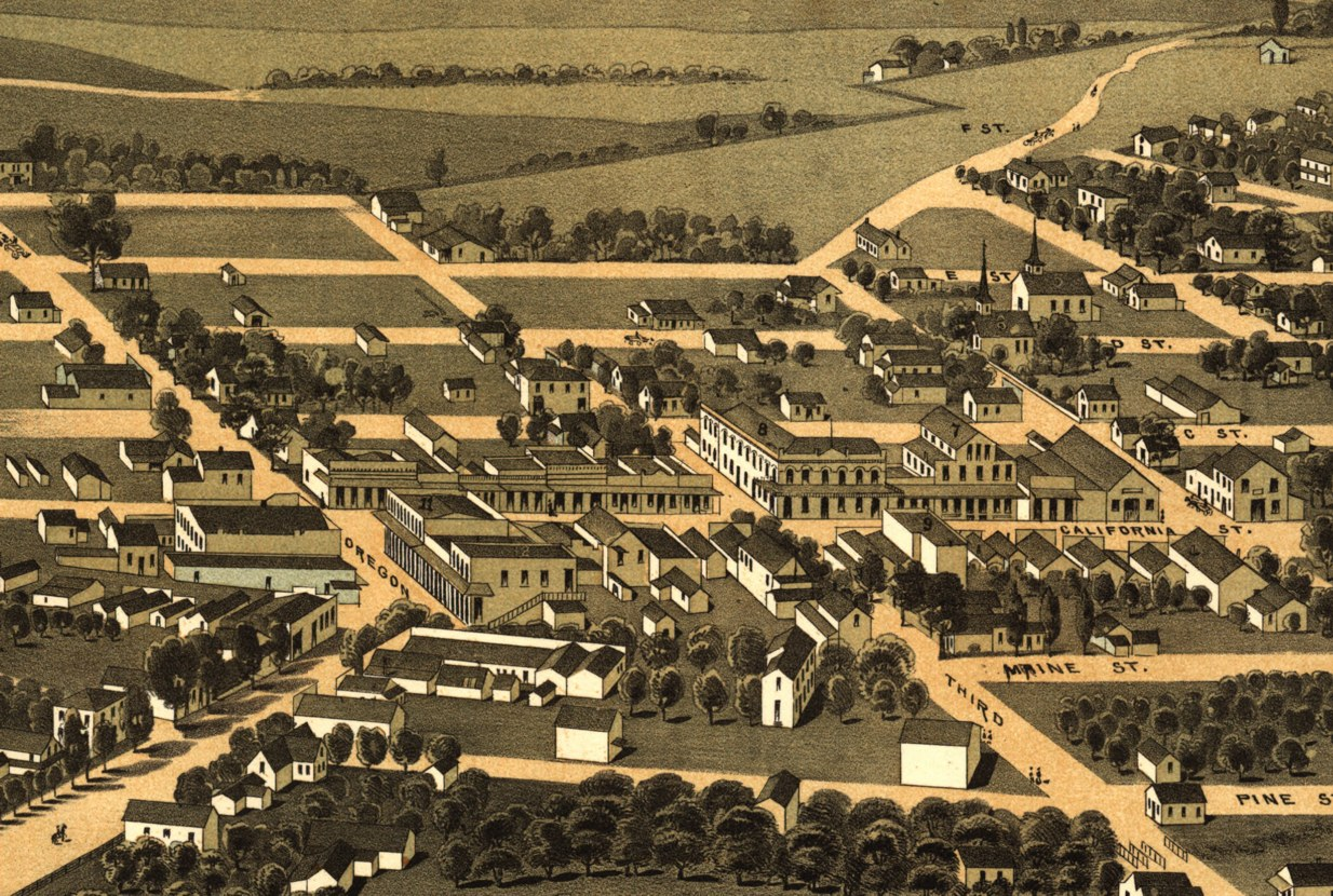 Excerpt of bird's eye view of Jacksonville, Oregon lithograph from 1883.